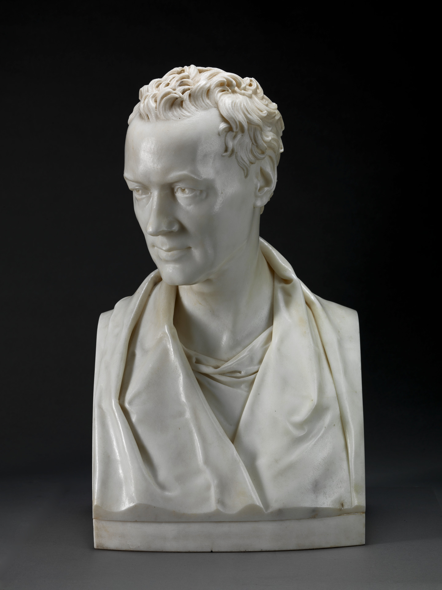 "William Howley, Bishop of London (1766-1848)," marble bust, by the English sculptor Francis Leggatt Chantrey, dated 1821. 23 inches x 13 1/2 inches x 10 1/2 inches (58.4 cm x 34.3 cm x 26.7 cm). Courtesy of the Paul Mellon Collection, Yale Center for British Art, Yale University, New Haven, Connecticut.